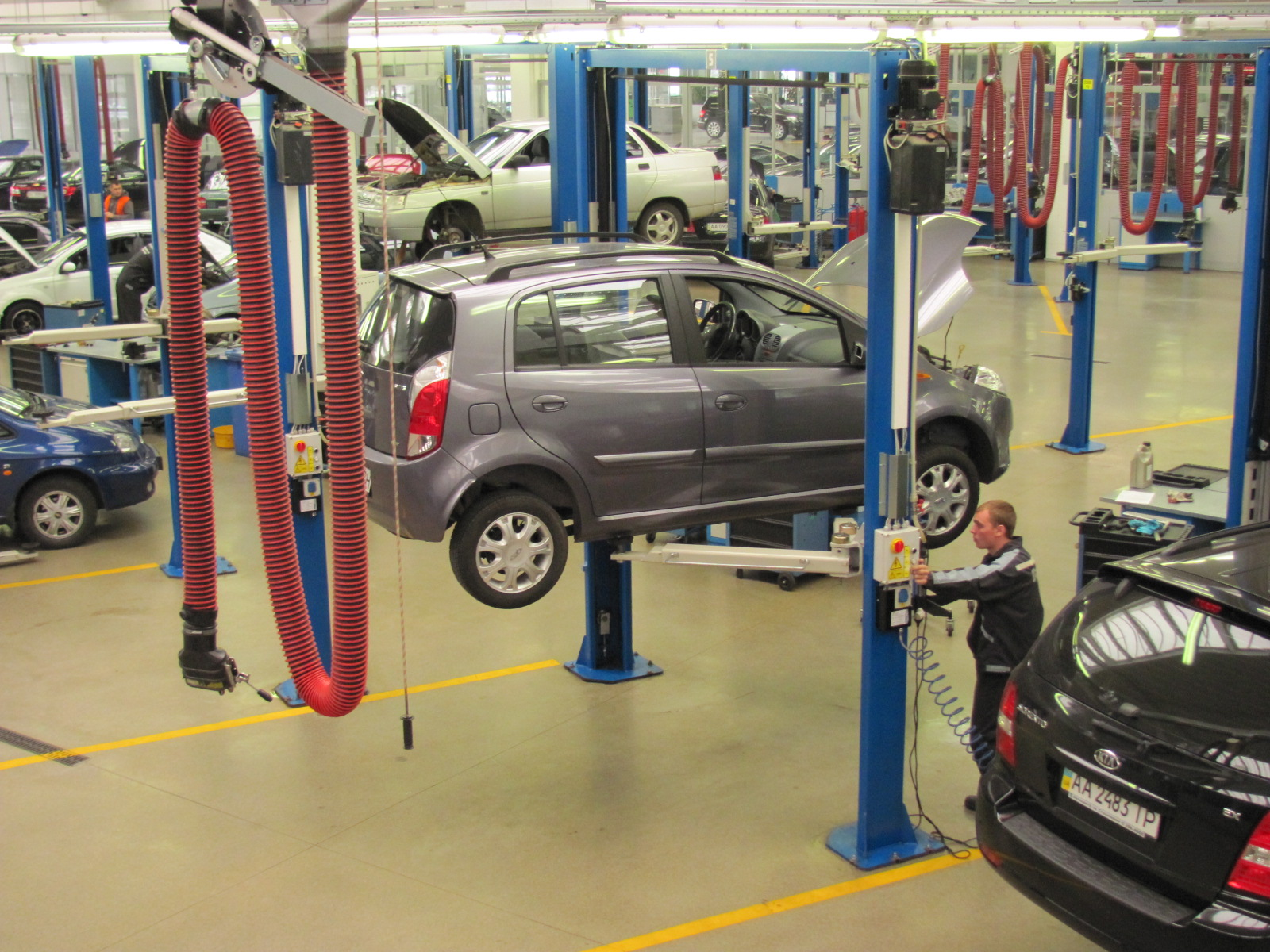 Chery A1 - vehicle assembly line in Ukraine.